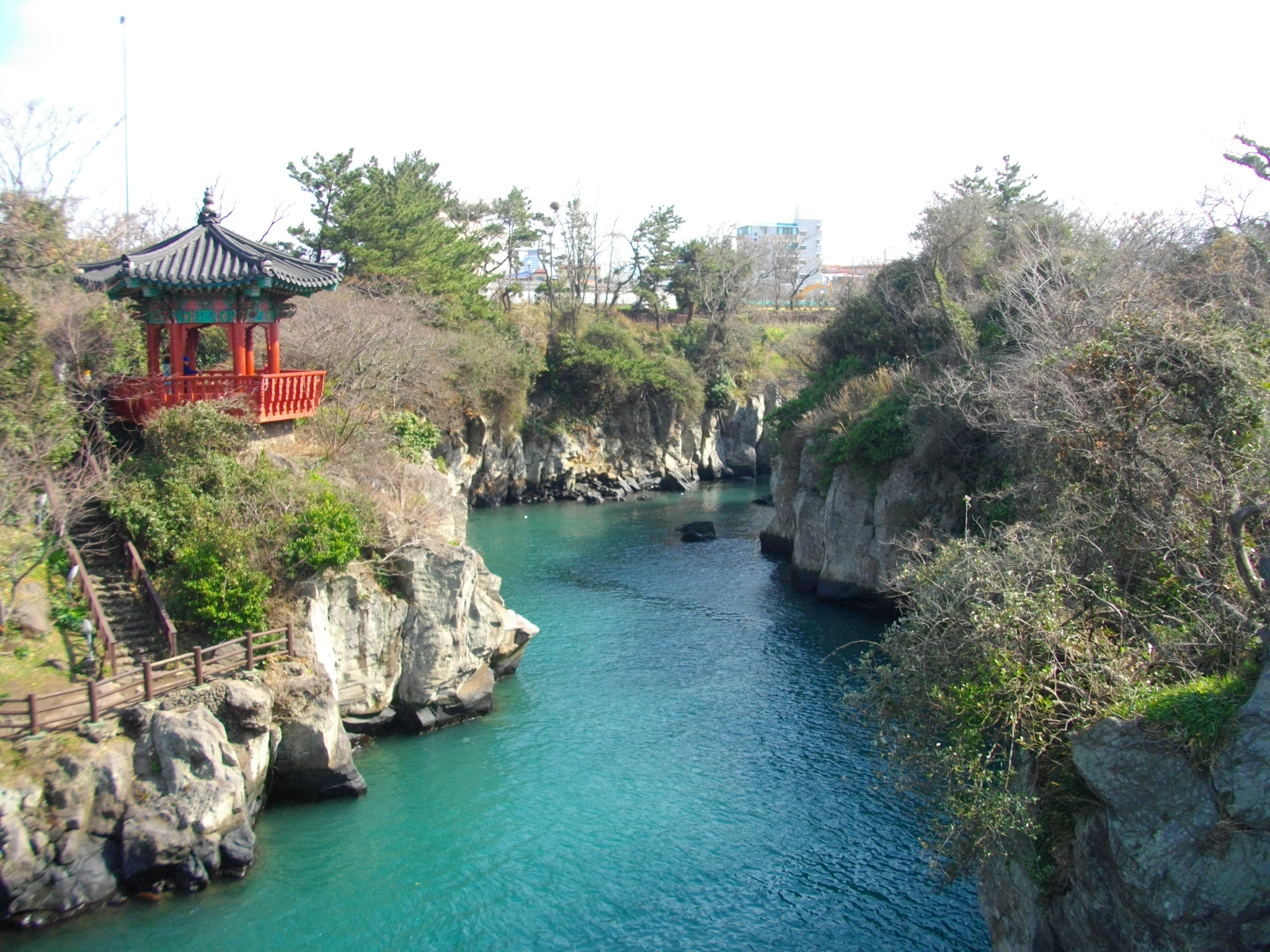 Yongyeon